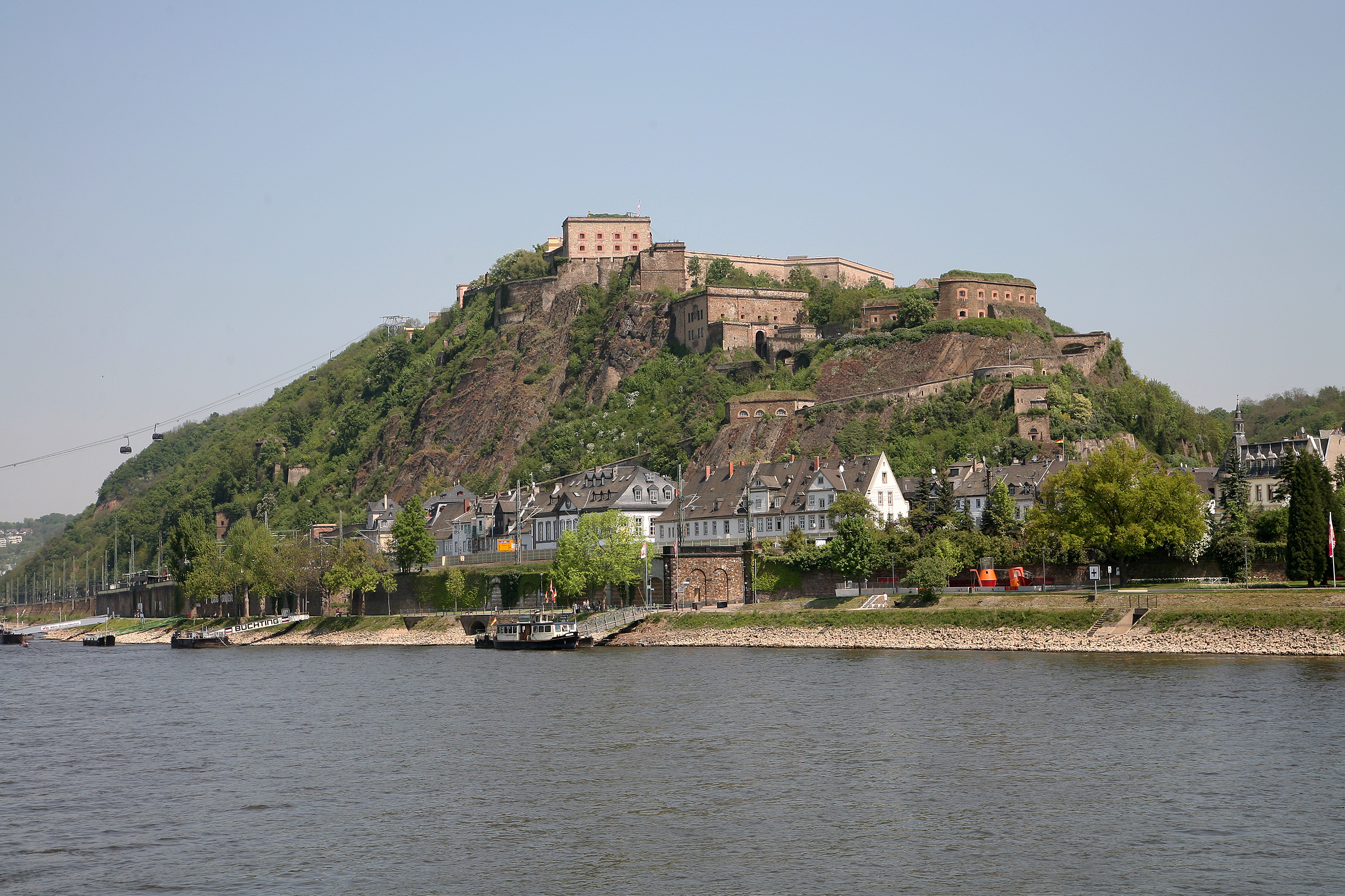 Ehrenbreitstein fortress near Koblenz. The fortress was built between 1817 and 1828 and is one of the largest fortifications in Europe.